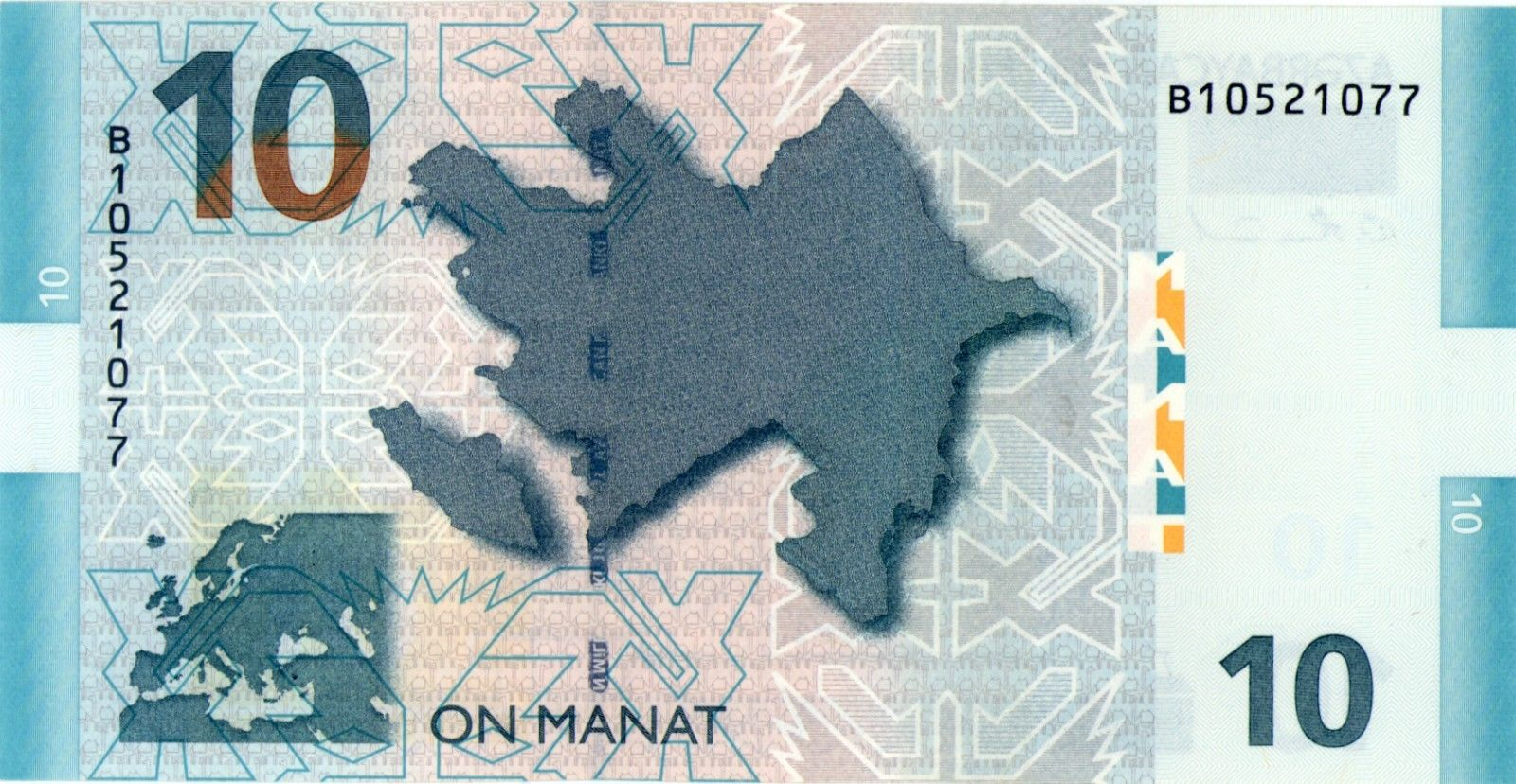 reverse of 10 AZN